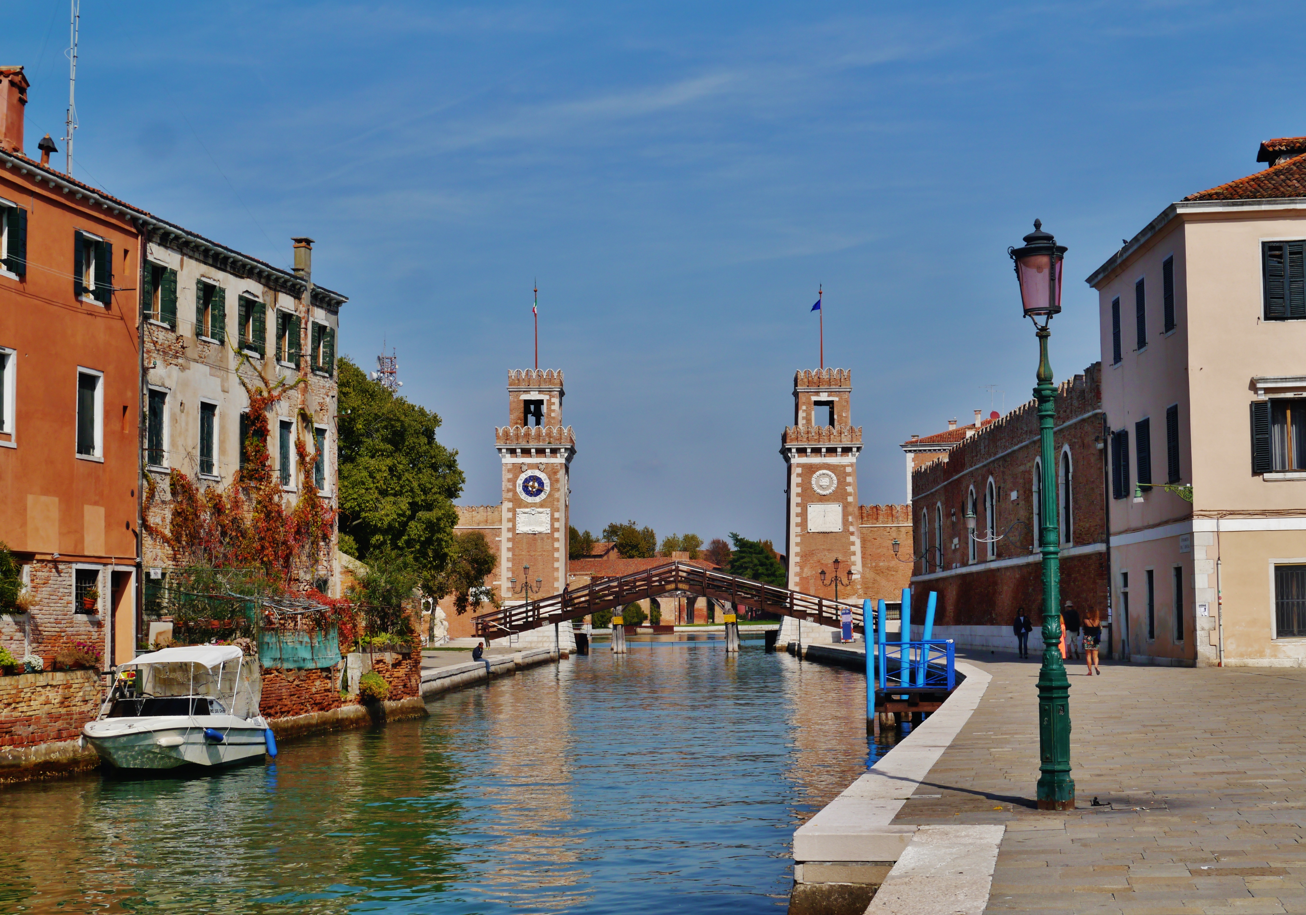 Sea Gate of the Arsenal, Venice, Metropolitan City of Venice, Region of Veneto, Italy